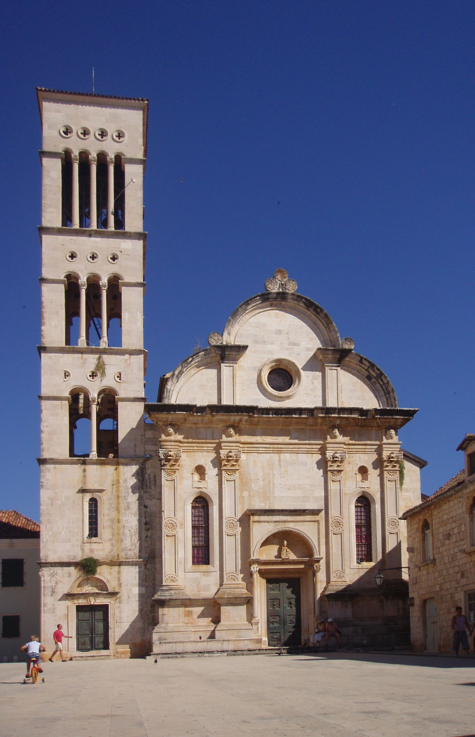 The Cathedral of St. Stephen in Hvar